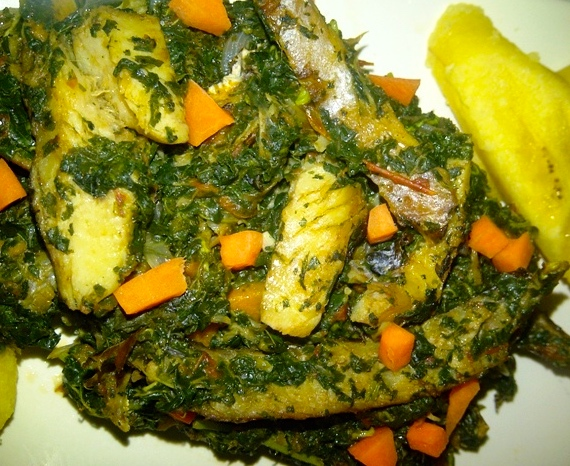 This is an image of food from Cameroon